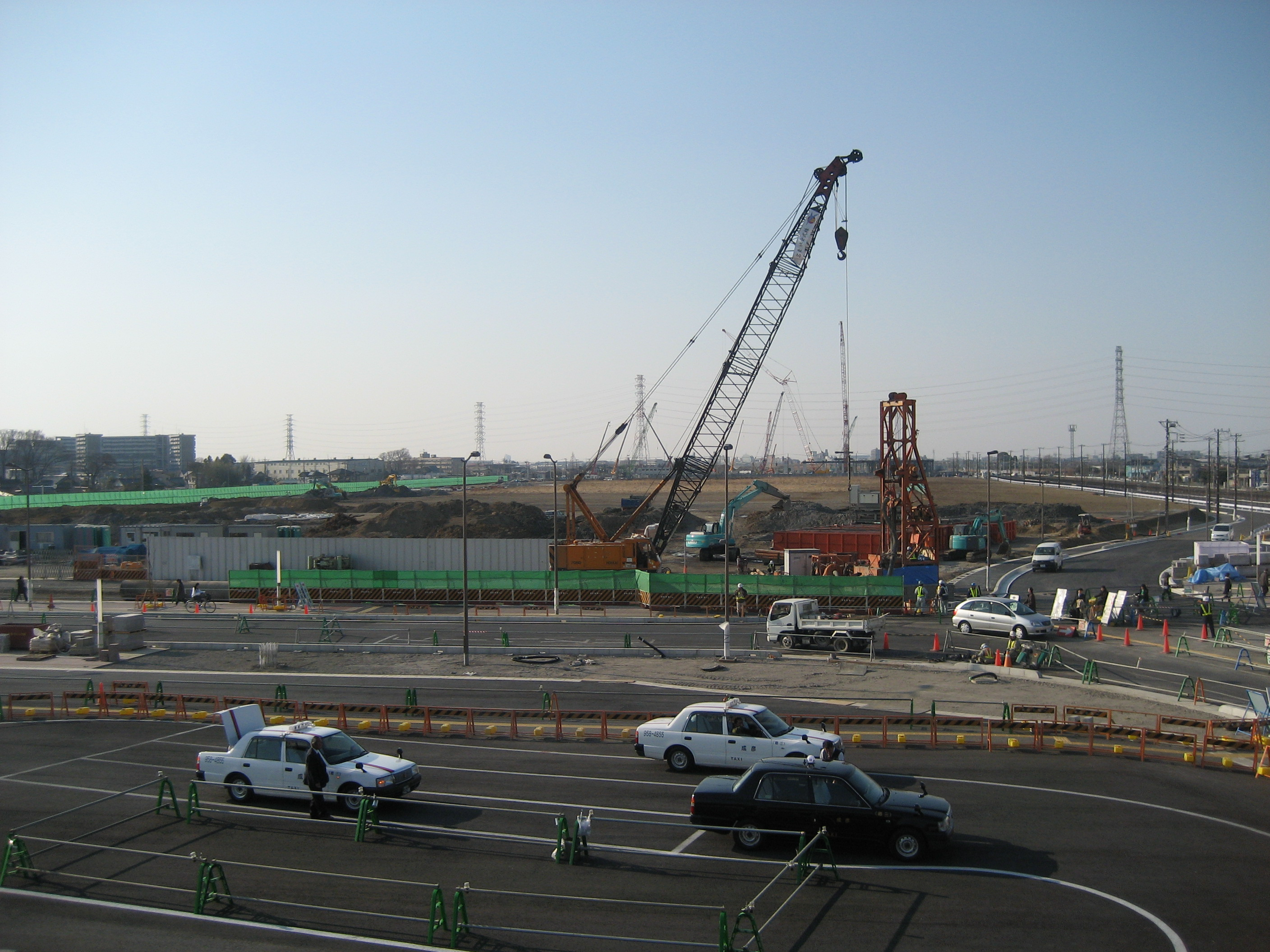 Former site of Musashino Freight Yard